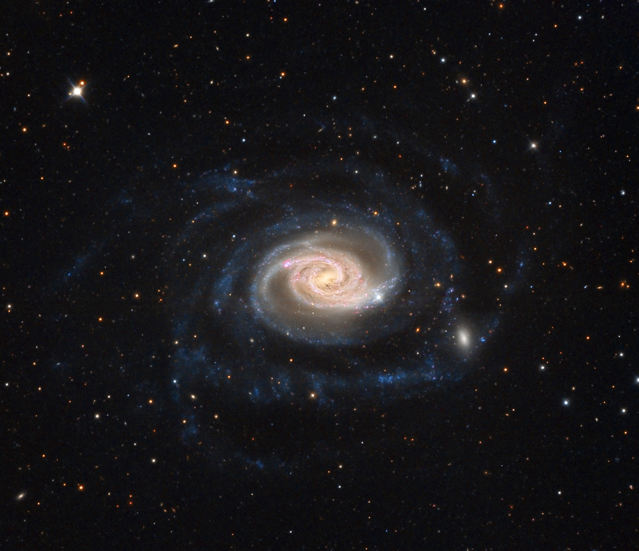 Optics ChileScope 1.0m Telescope Camera FLI Proline PL16803 Filters AstroDon Gen II Date October 2017 - December 2017 Location ChileScope, Chilean Andes, near Ovalle Exposures LRGB = 11 : 5 : 5 : 5 Hours Acquisition ChileScope Software, Astronomy Control Panel (DC3 Dreams), Maxim DL (Cyanogen) Processing Pixinsight Credit Line & Copyright Adam Block/ChileScope